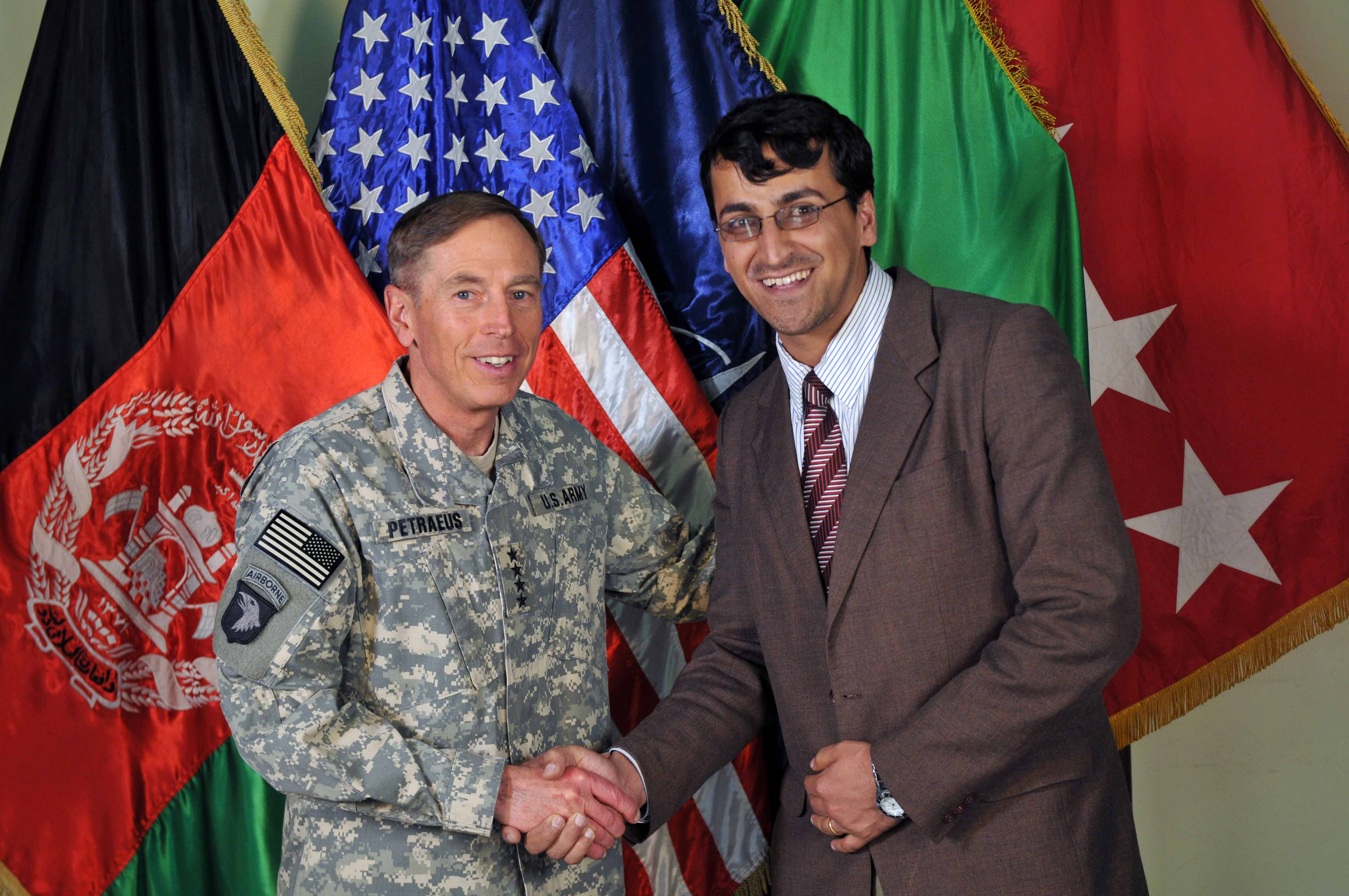 Dr. Mohammad Shafiq Hamdam and General David Petraeus US Commander in Afghanistan